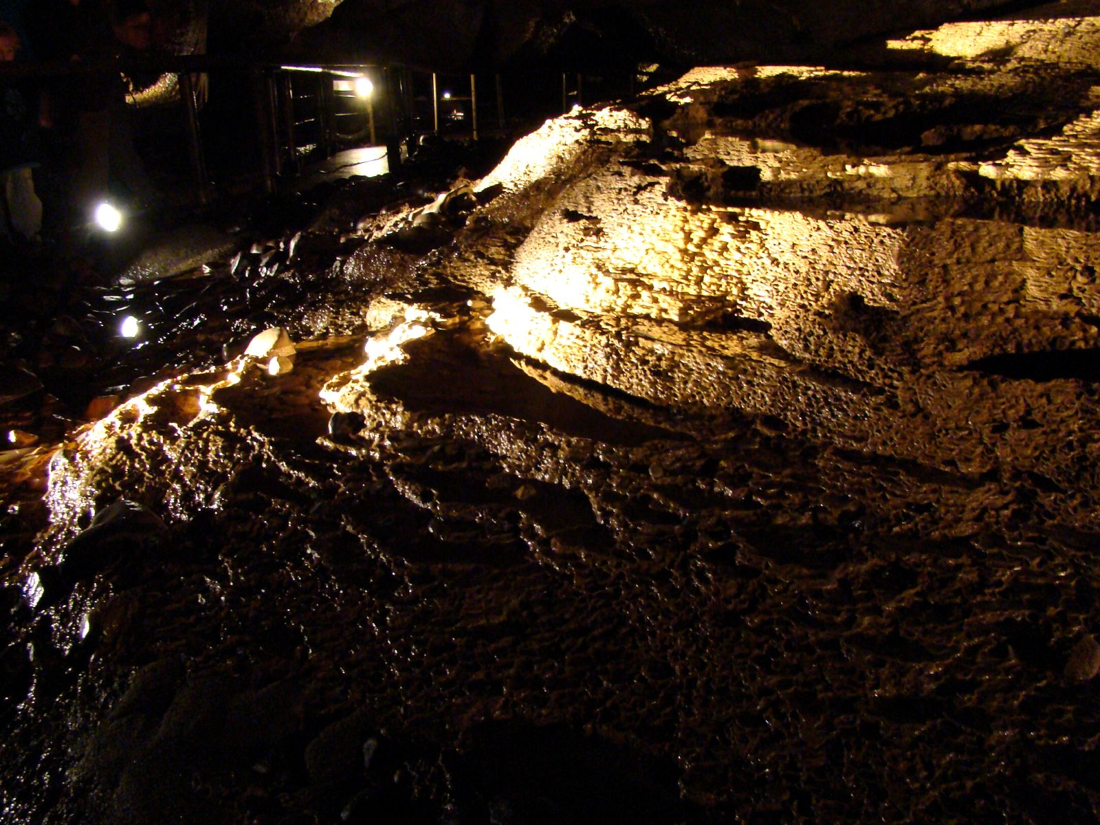 Gour pools (rimstones) and flowstone beside the walkway in the Marble Arch Caves showcave.